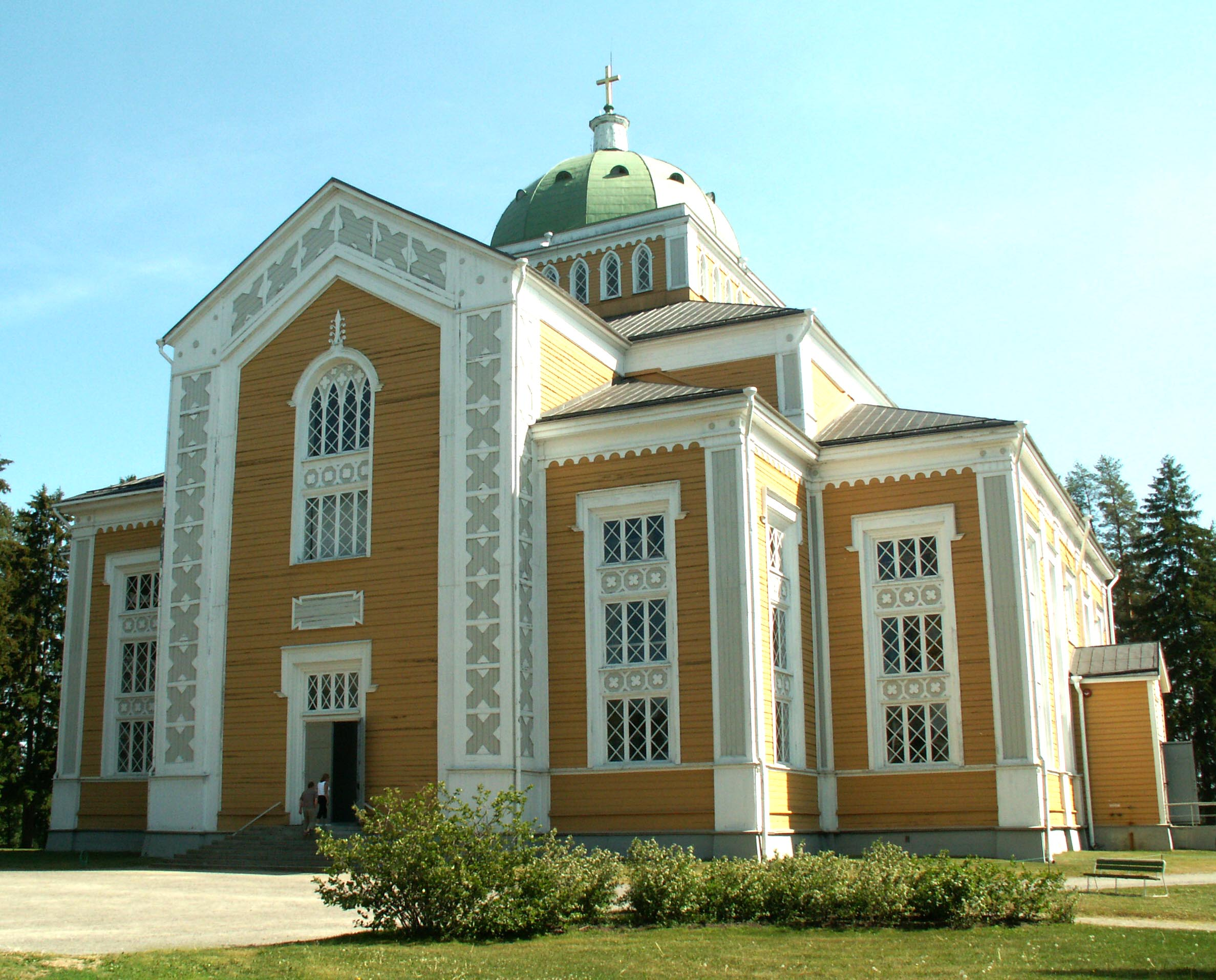 Church of Kerimäki, Finland, the worlds largest wooden church